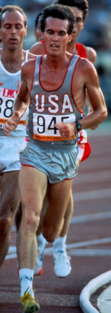 1984 Los Angeles Olympics 10,000 meter semi-final